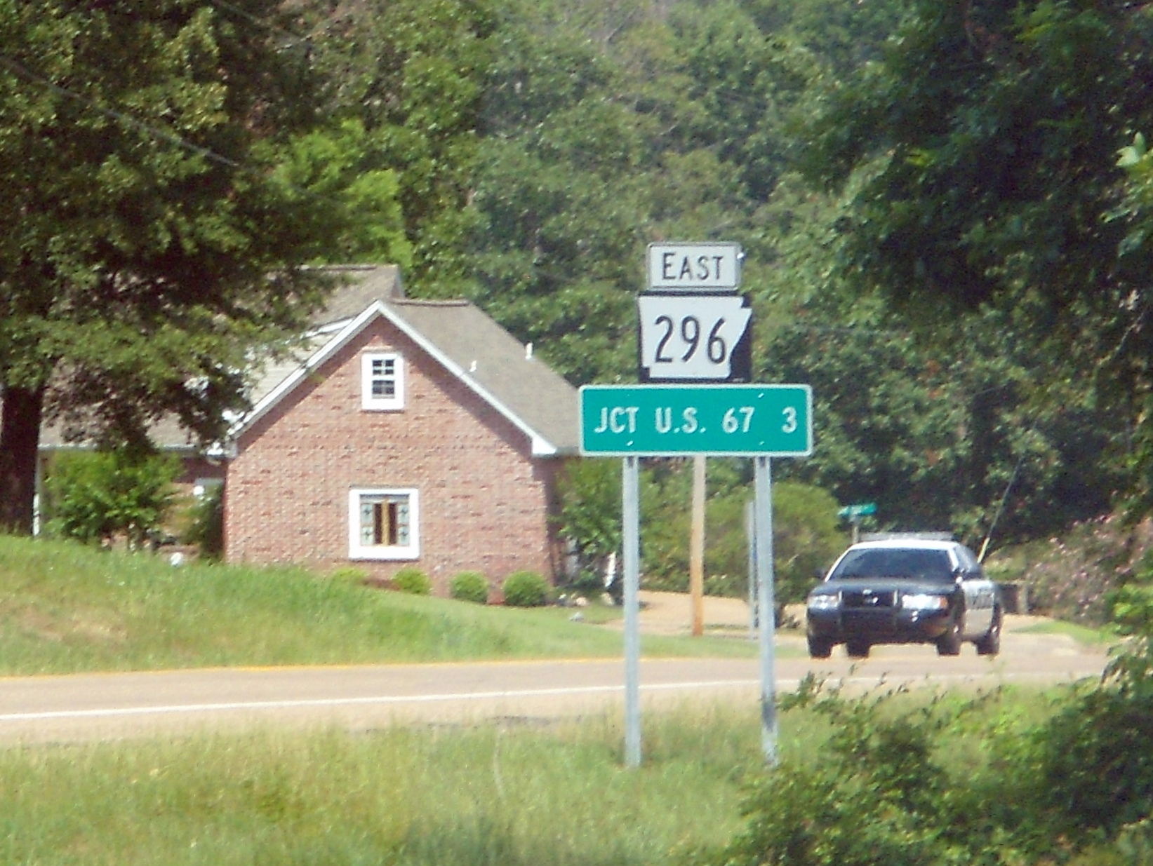 Arkansas Highway 296 just east of Highway 245's terminus in Texarkana.